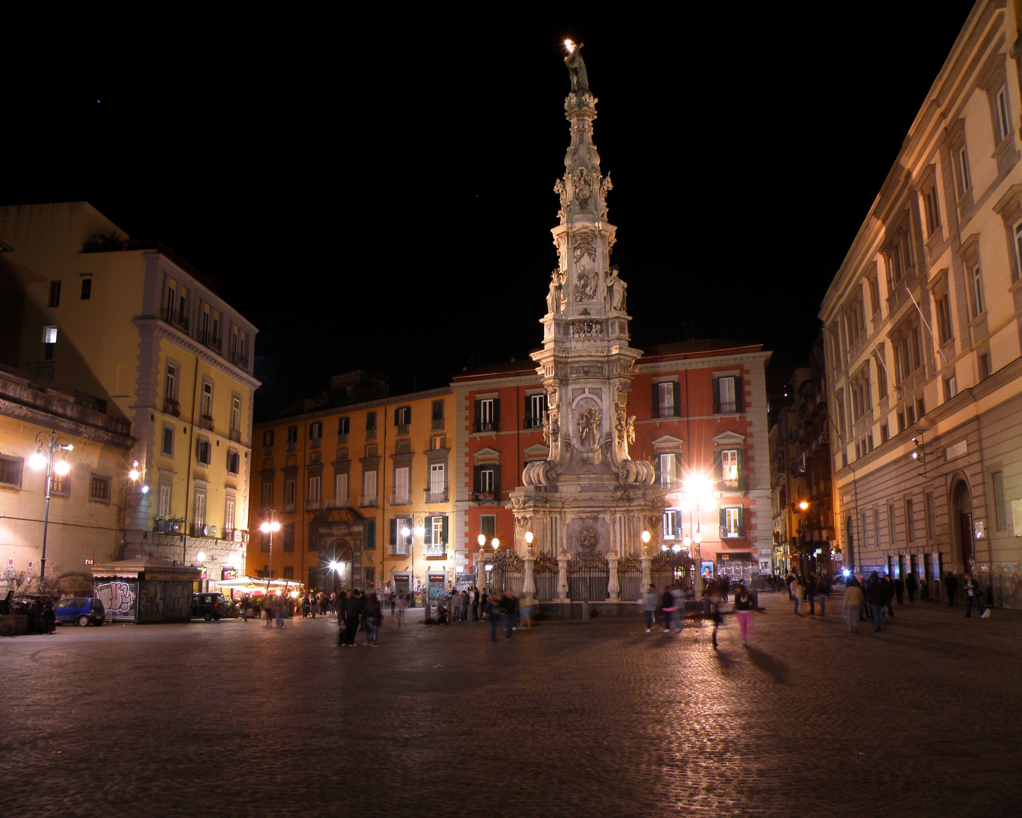 Piazza del Gesù Nuovo, Naples, Italy. The photo was taken with Santa Chiara's church back.